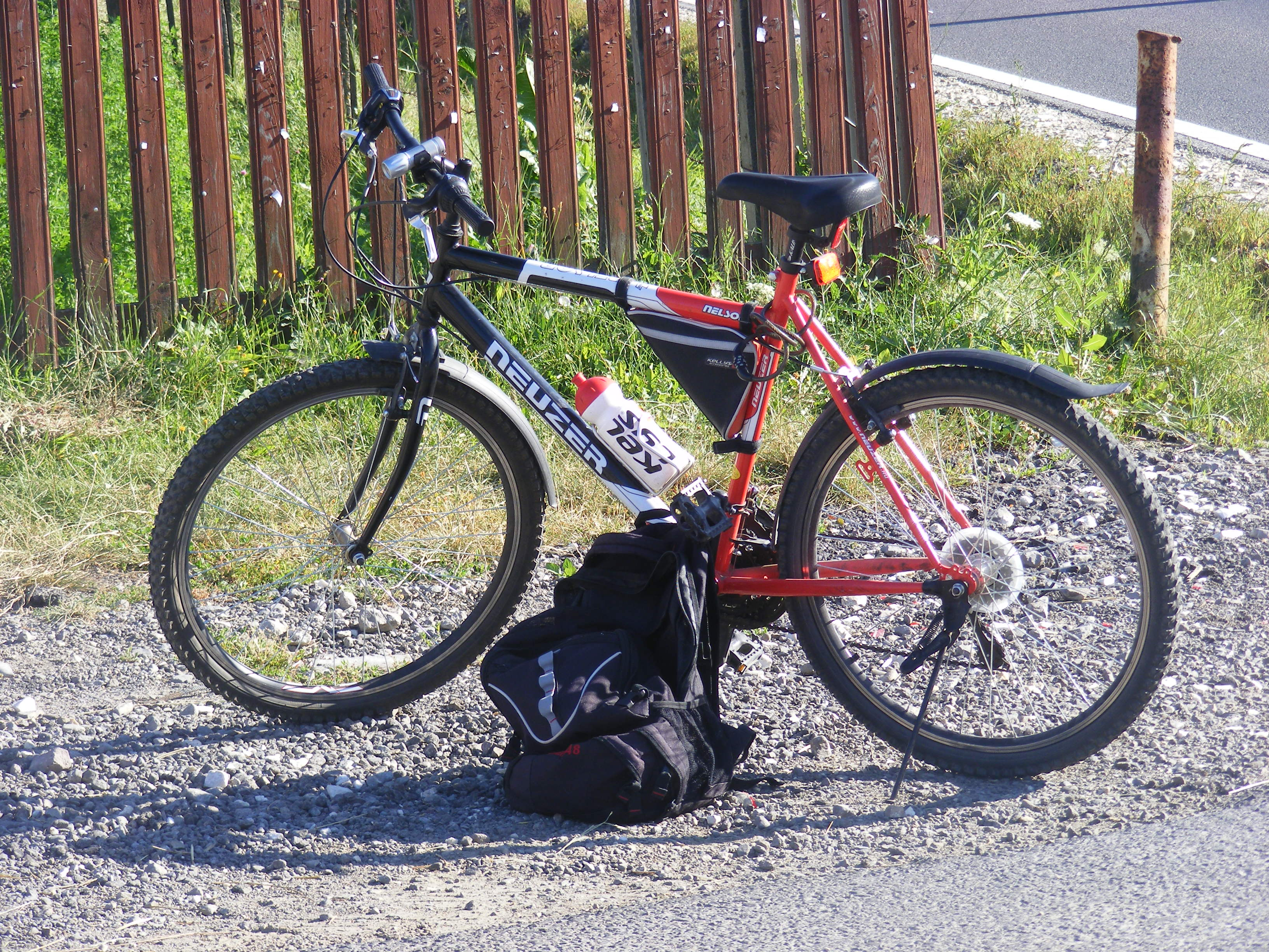 Mountain bike